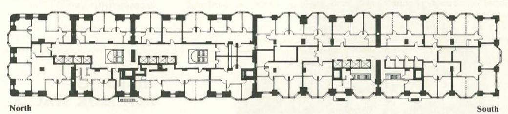 Monadnock Building, 53 West Jackson Boulevard, Chicago, Cook County, IL. Both north and south building floor plan, showing double-loaded corridor system.